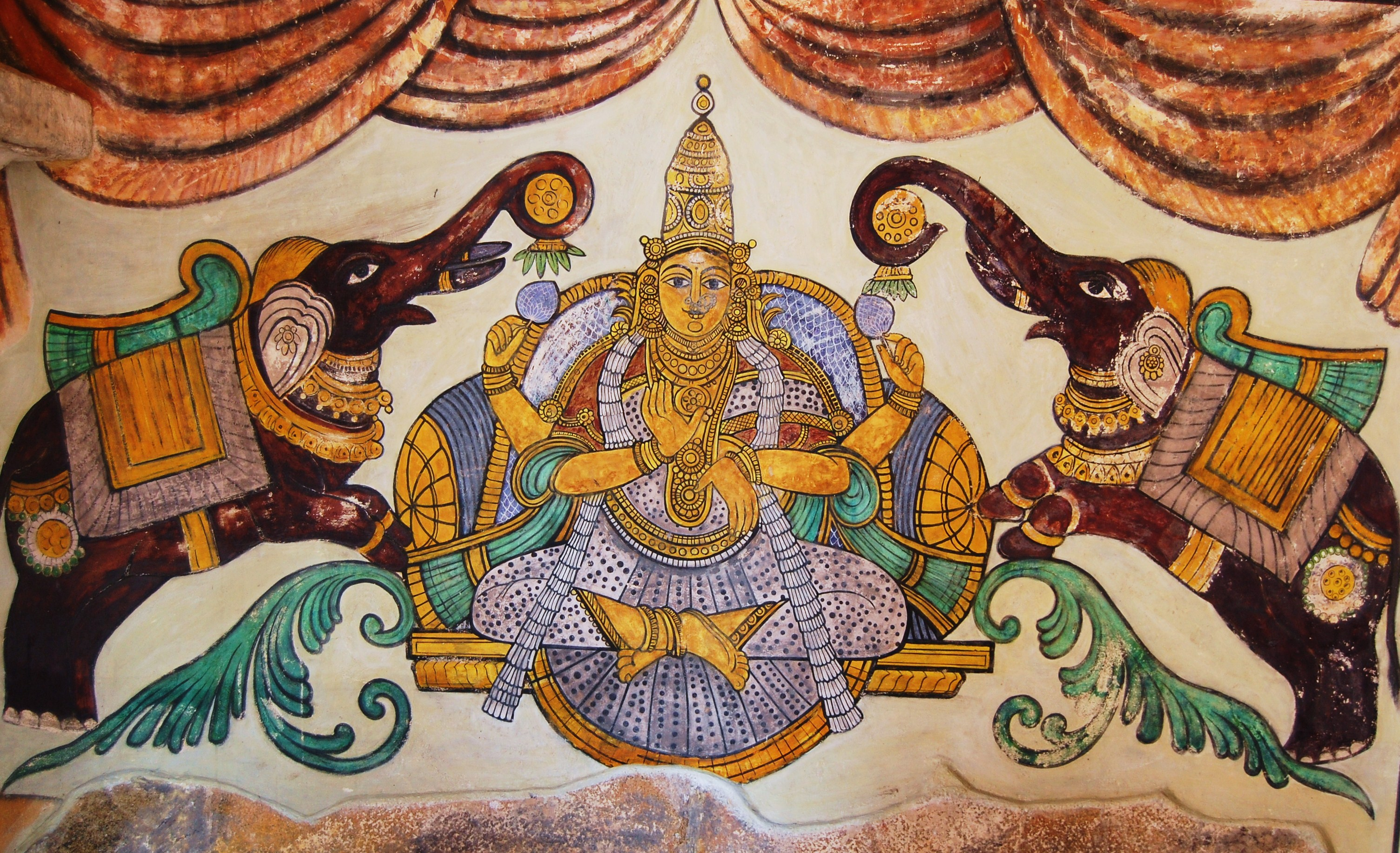 These paintings are on the inner walls of the Tanjore Big temple.